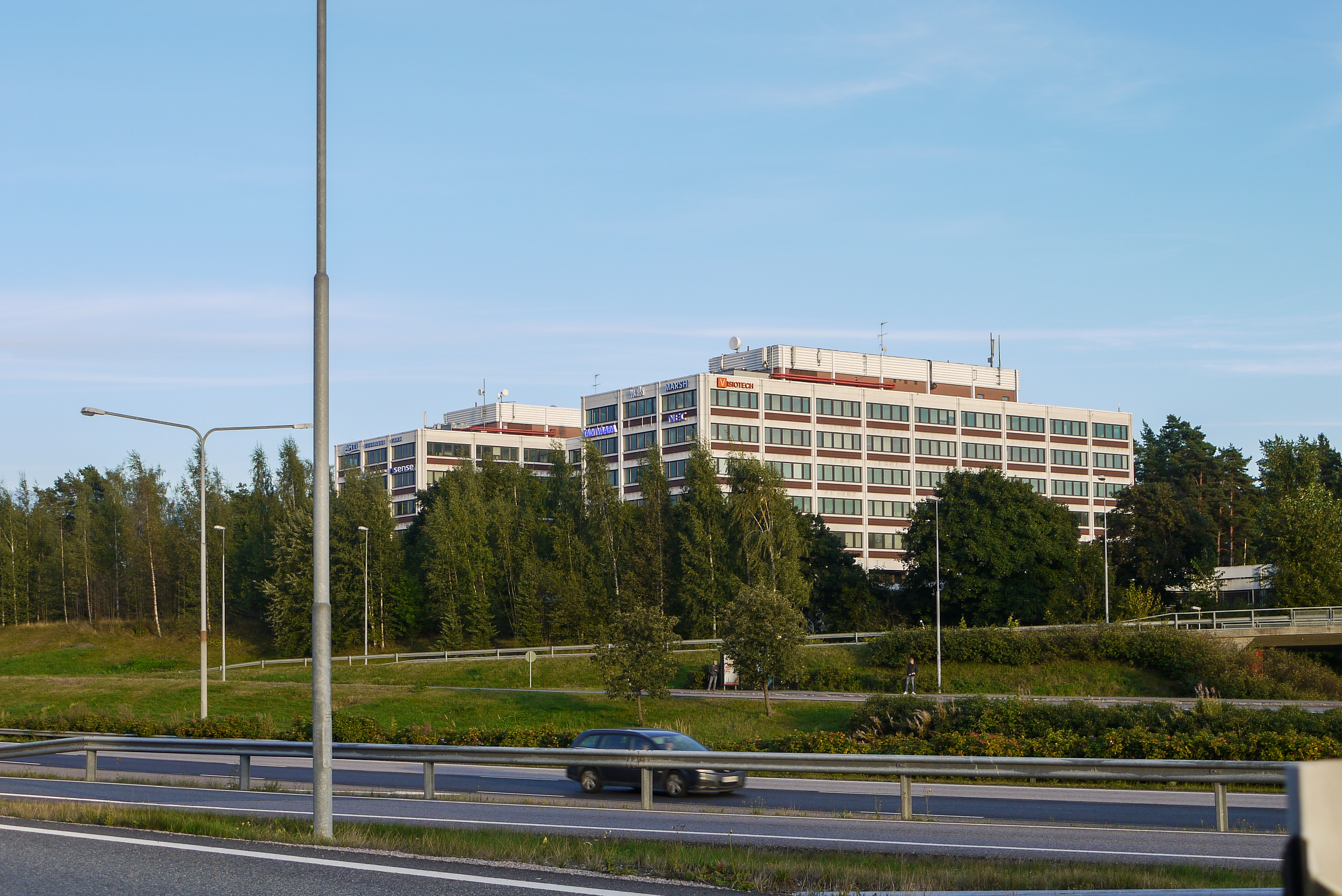 AHTI Business Park in Haukilahti, Espoo, Finland.